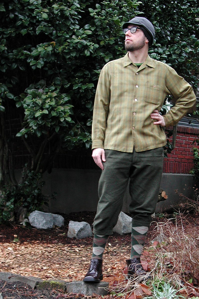 Shirt: Pendleton "Sir Pendleton" square-tail. Knickers: remixed, German. Socks: wool argyle. Shoes: Kenneth Coles. Cap: By Shaun Deller.